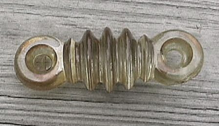 Pyrex strain insulator commonly used for antenna installations